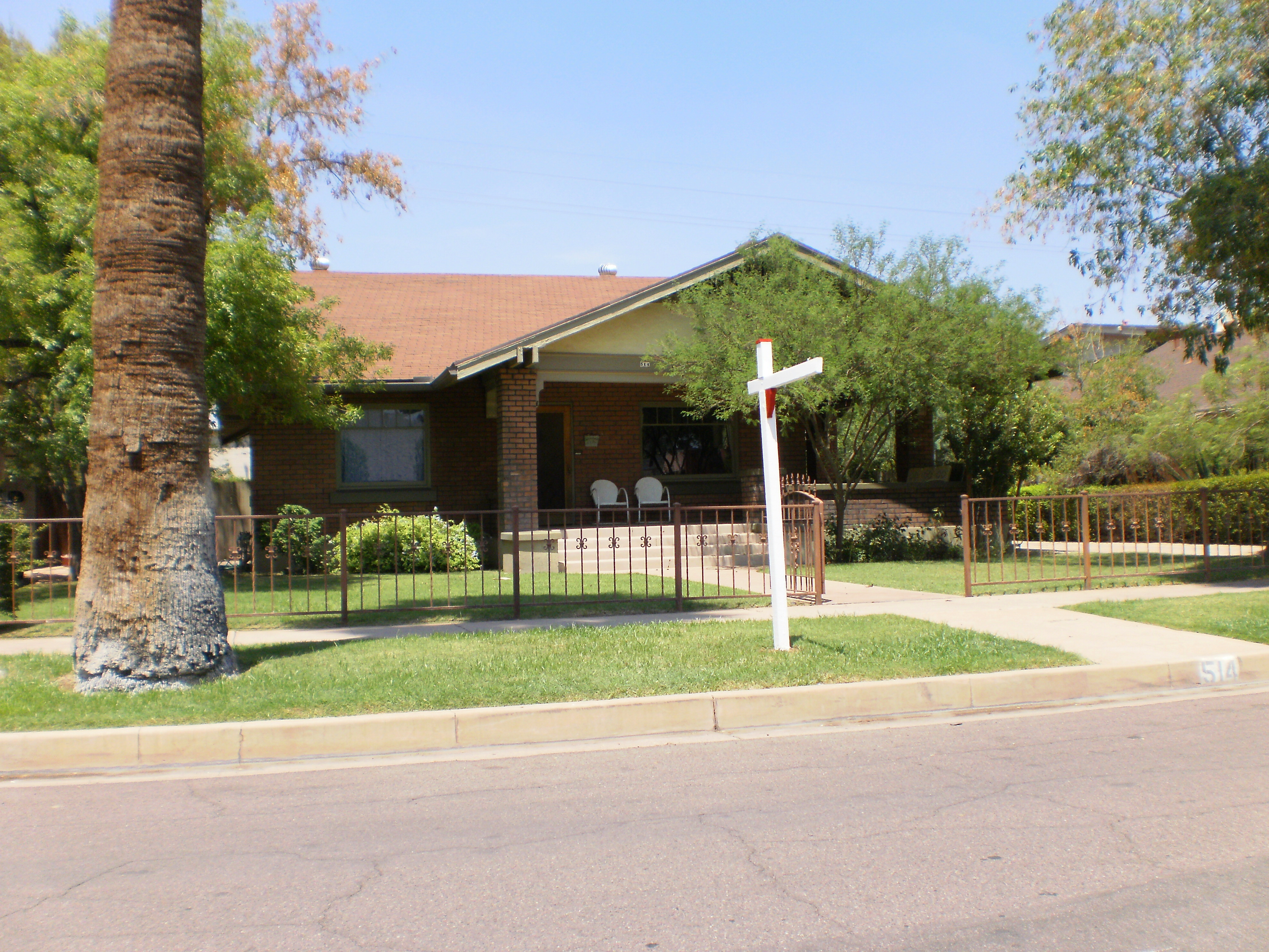 Present day photo of J.J. "Jack" Halloran's home at the time of the Judd murders